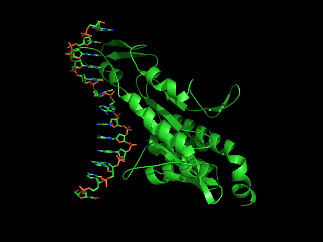 This a view of EcoRI bount to DNA.